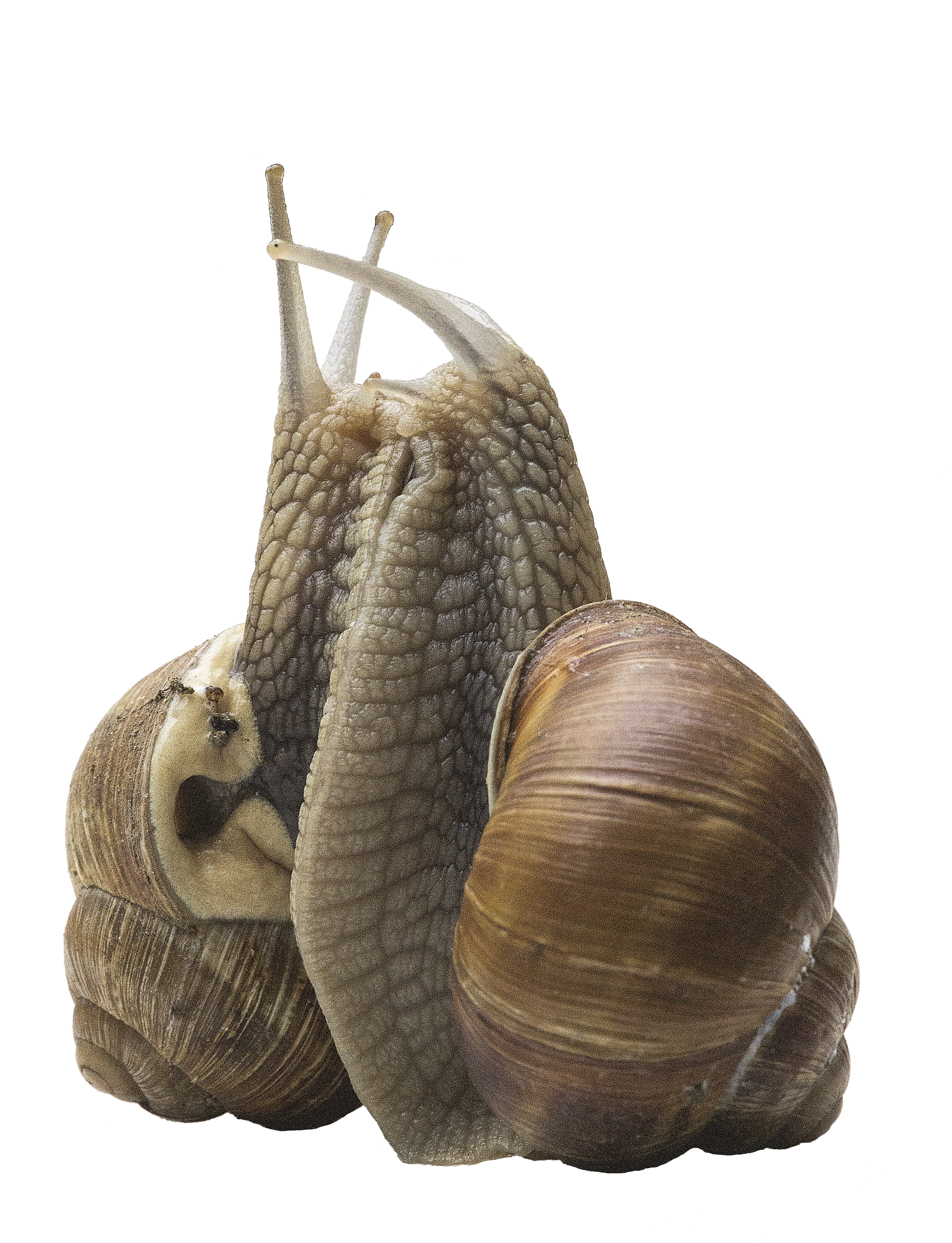 Roman snail